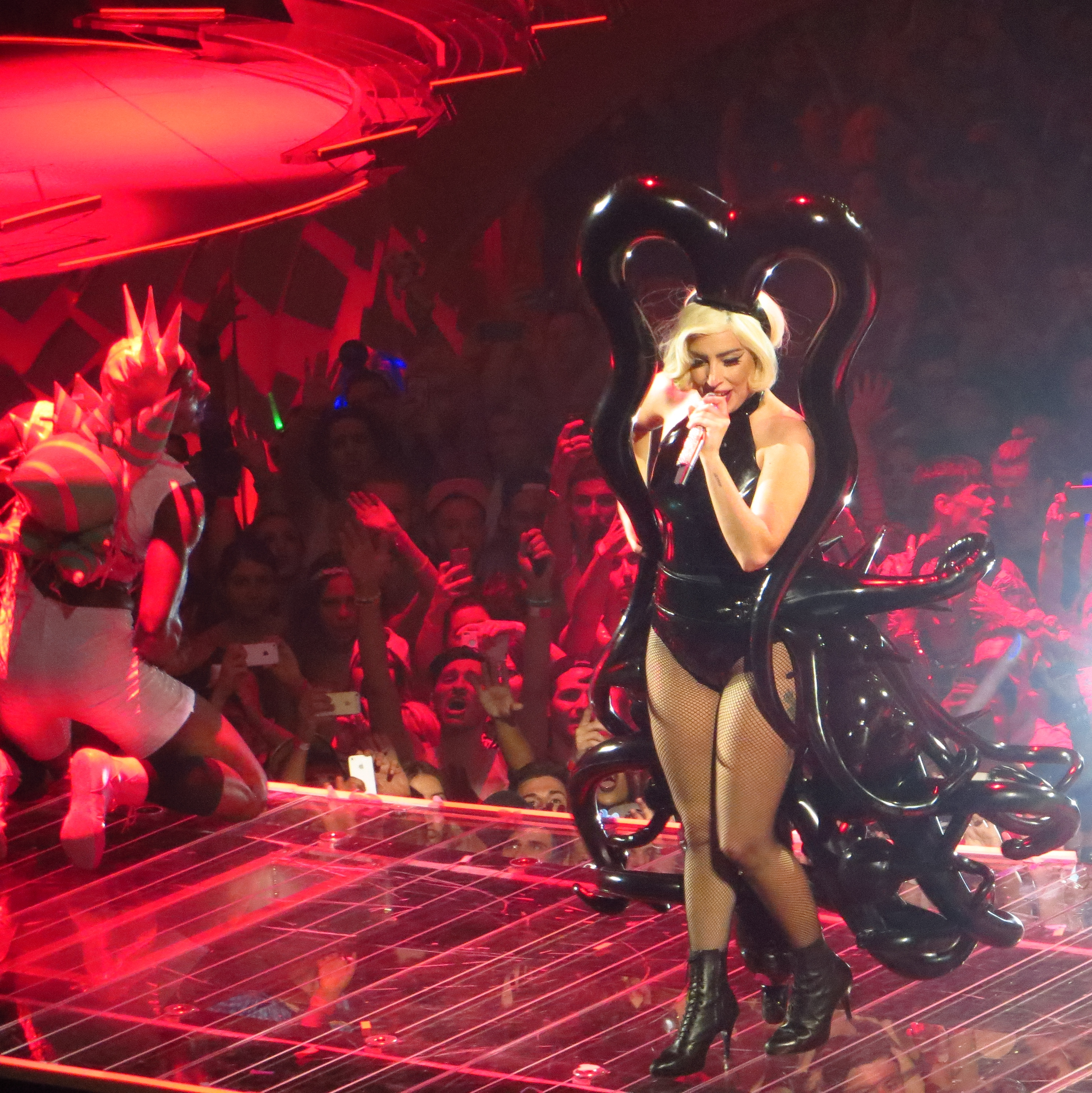 Lady Gaga, ARTPOP Ball Tour, Bell Center, Montréal, 2 July 2014 (46) Gaga performing on ArtRave: The Artpop Ball tour